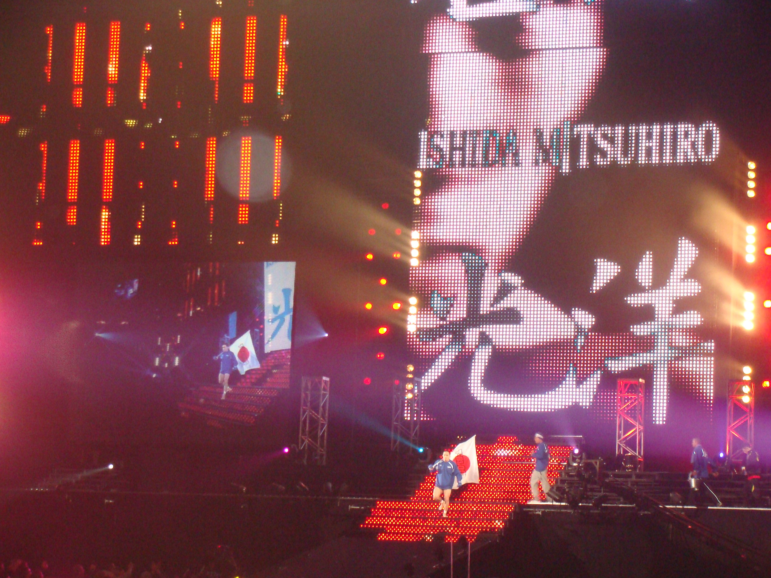 Mitsuhiro Ishida's ring entrance at Yarennoka